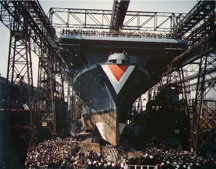 USS Bon Homme Richard (CV-31) slides down the building ways, as she is launched at the New York Navy Yard, Brooklyn, New York, on 29 April 1944.